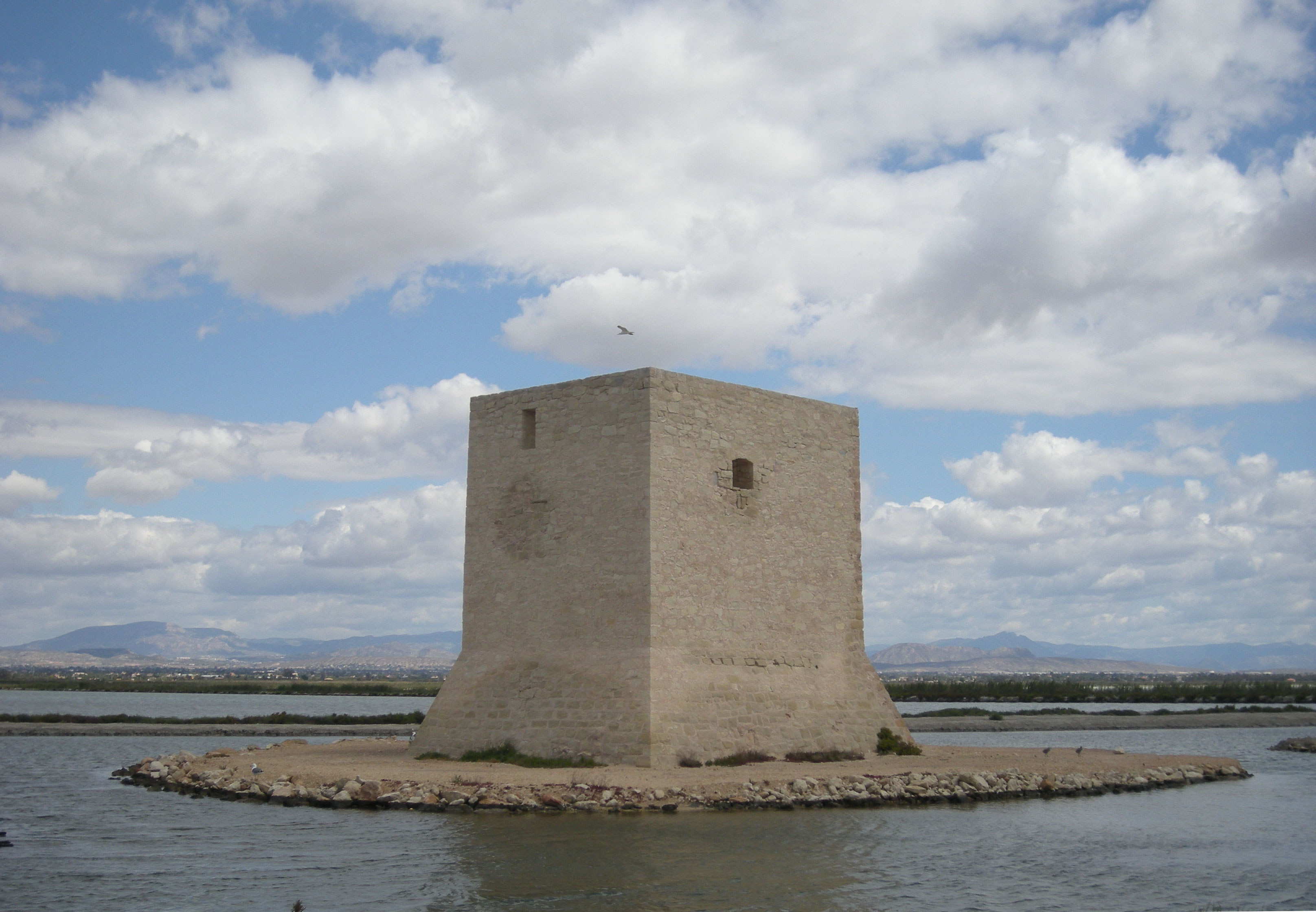 Tamarit tower in Santa Pola, Alicante, Spain